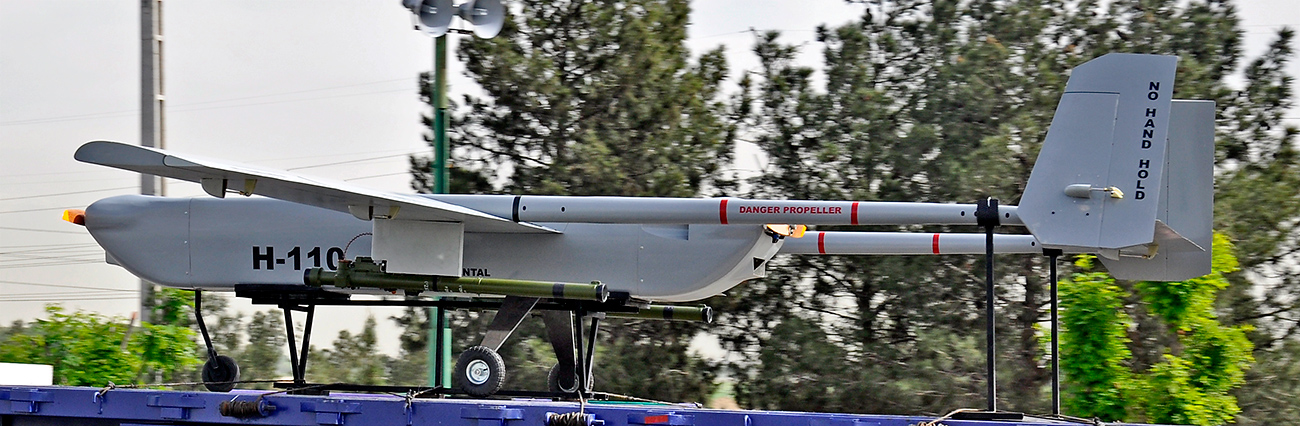 Experimental prototype of Iranian H-110 Sarir UAV